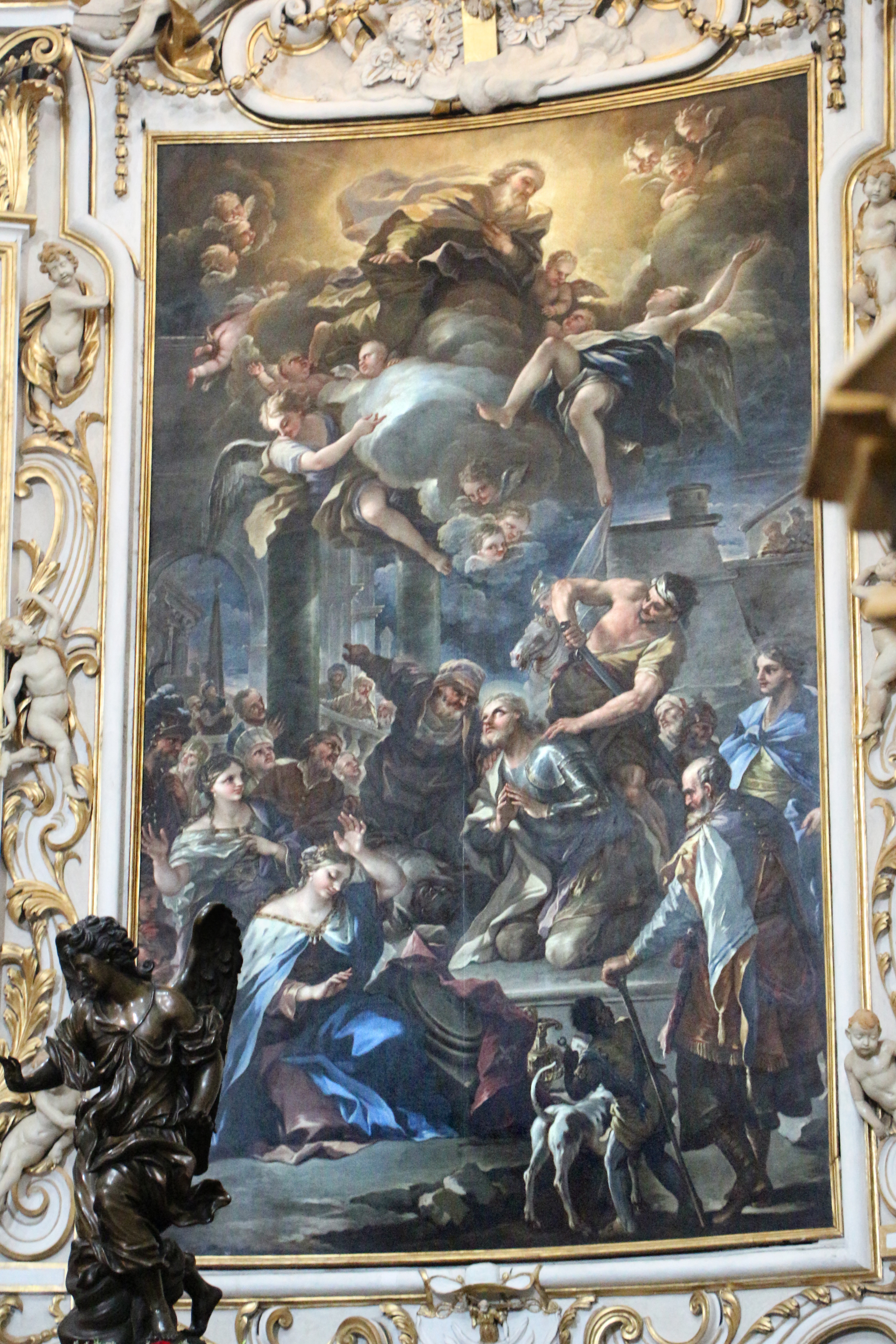 Duomo (Bergamo) - Inside